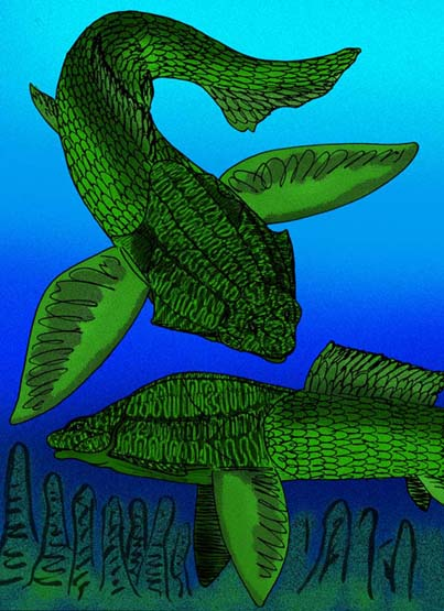 Reconstruction of the arthrodire placoderm Holonema westolli, of the Late Devonian Gogo Reef